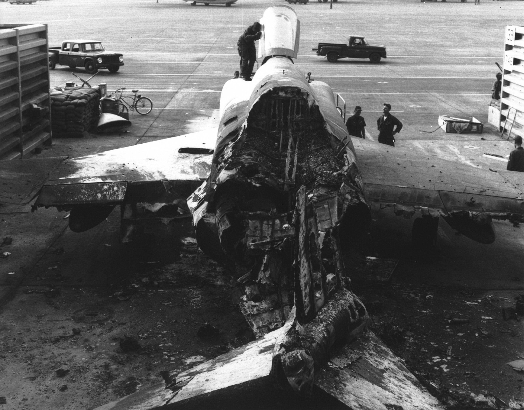 RF-4C Phantom II destroyed during the enemy attack against Tan Son Nhut during the February 18, 1968 rocket attack which also destroyed the base chapel.